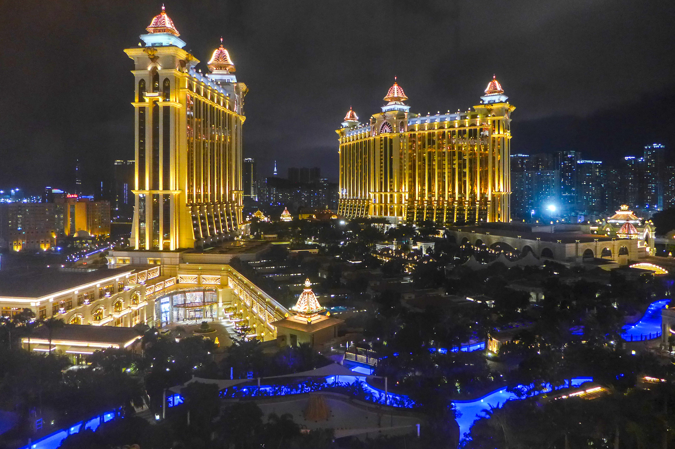 Galaxy Macau Night view